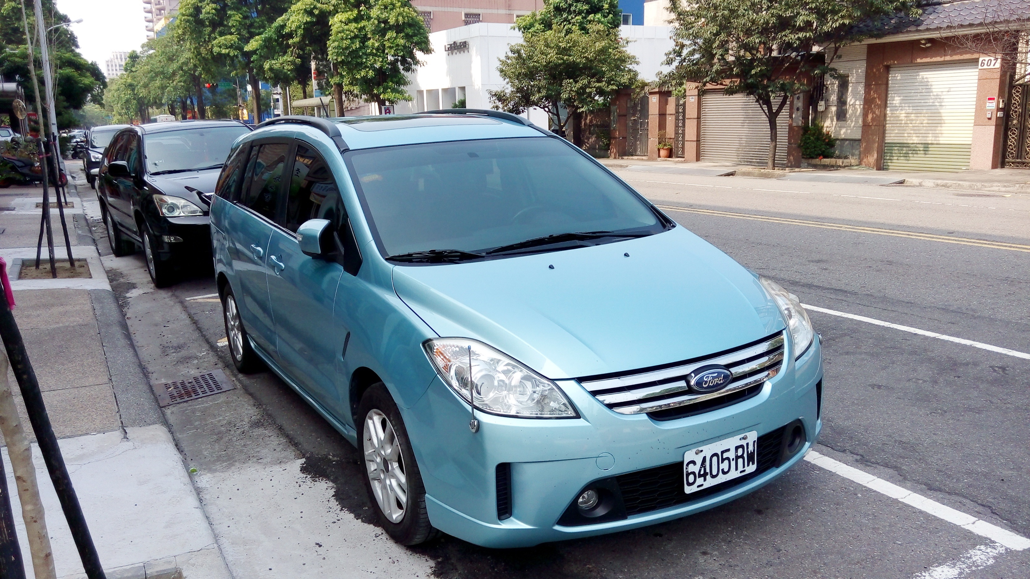 Front view of Ford i-MAX manufactured by Taiwan Ford Lio Ho Motor